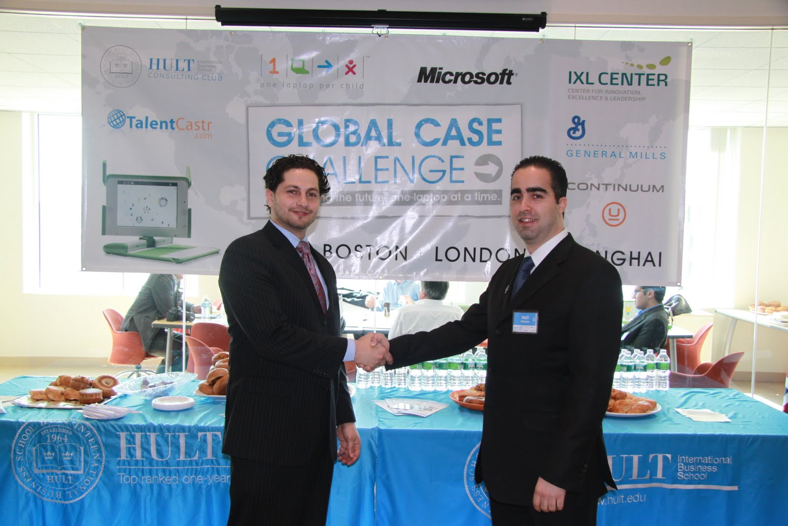 Global Challenge sponsors